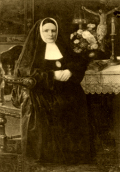 Photograph of Anna Maria Ravell, founder of the sisters Franciscan Missionaries of the Immaculate Conception